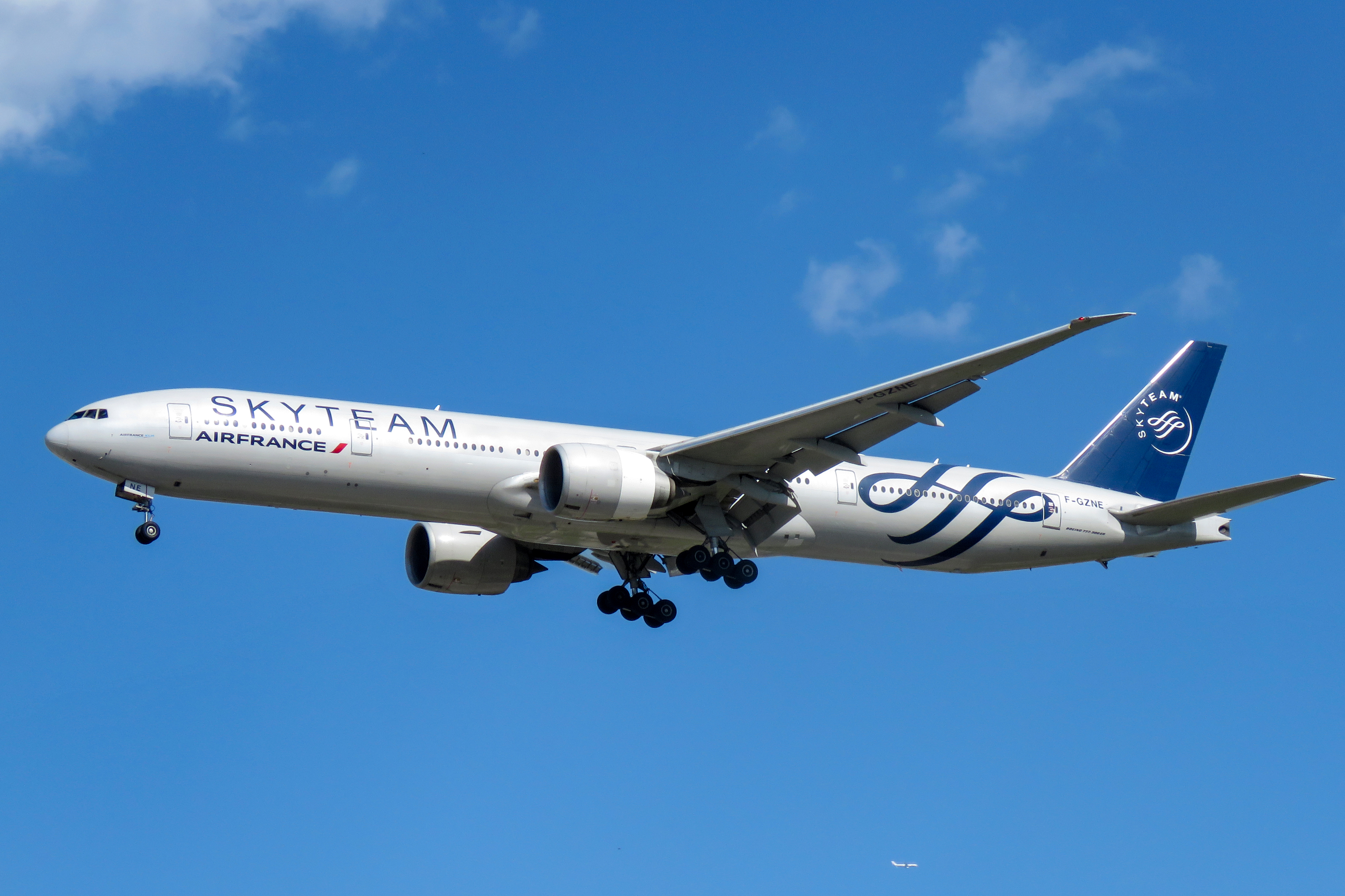 Air France 382 from Paris, landing at 36L.